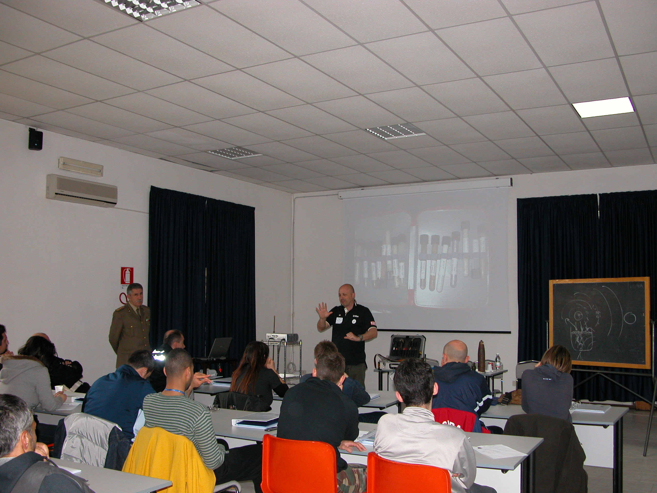 Seminario di esplosivistica tenuto a Parma dal professor Danilo Coppe